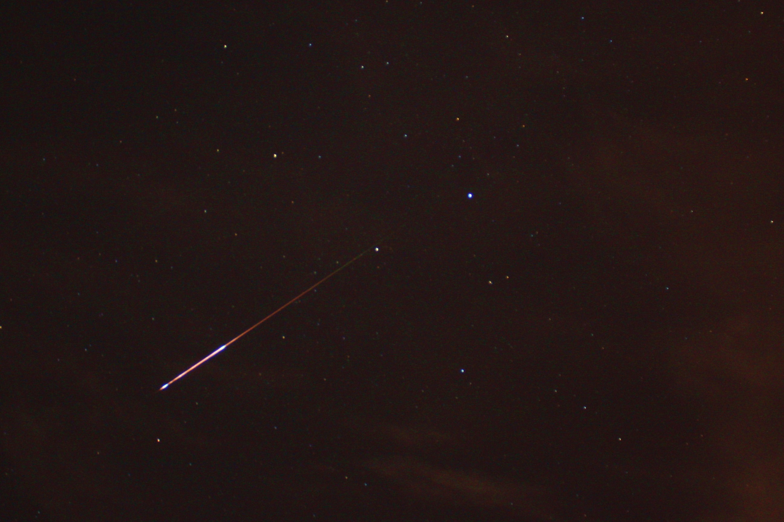 Perseid meteor shower in Austin Texas.